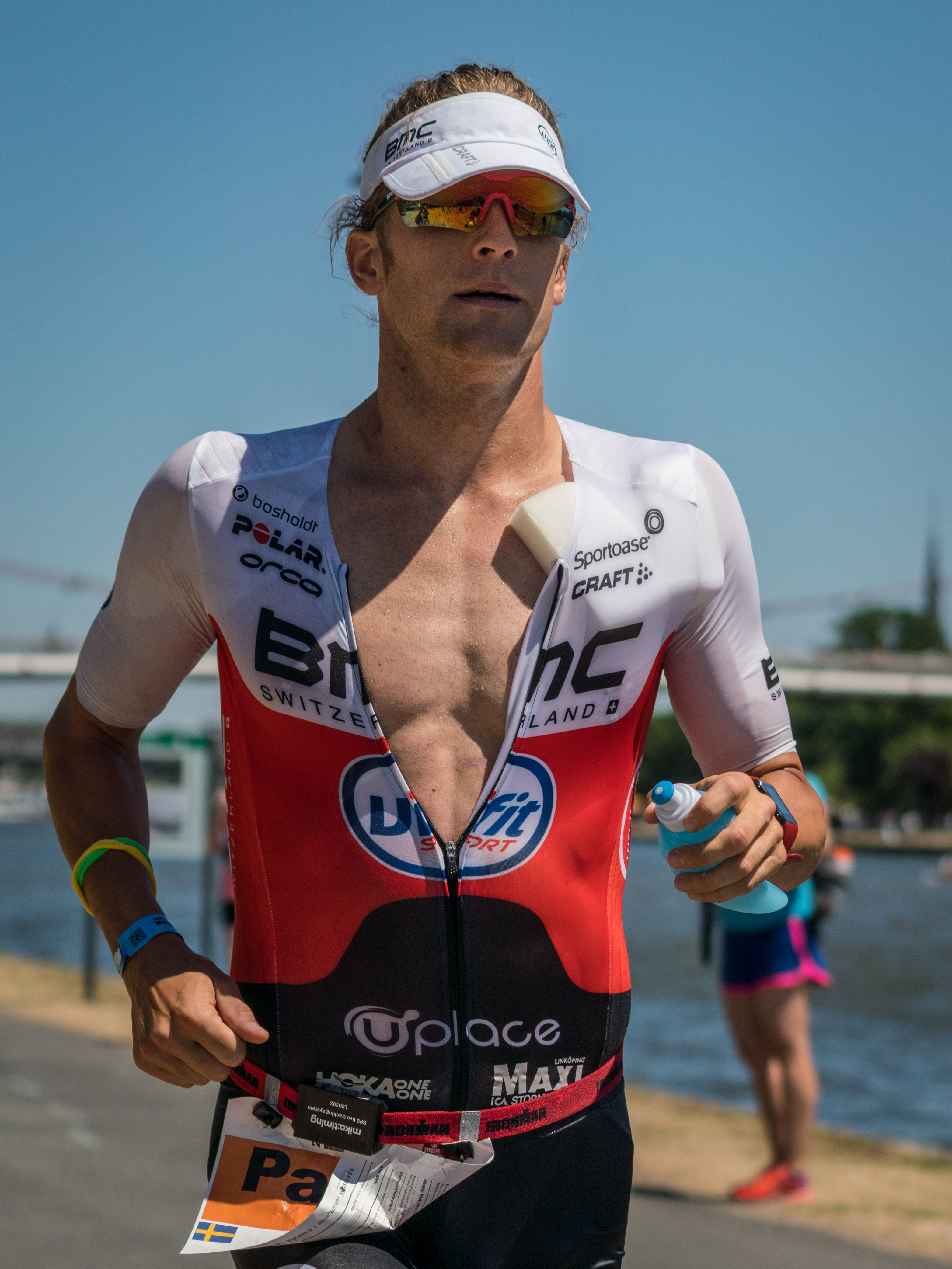 Second male Patrik Nilsson at the 2018 Ironman European Championship in Frankfurt am Main (Germany).